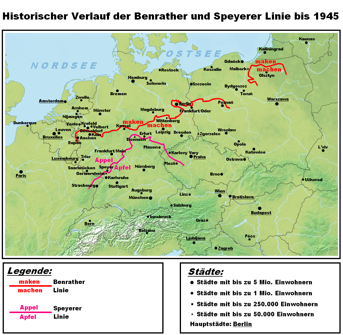 Map showing the historic position of the isoglosses known as the Speyer and the Benrath line, dividing lower from middle German dialects. Enclaves of high German north of the Benrath line are not displayed, since they are not the effect of a sound shift but result from later south to north migration. Dialect family divisions have also been omitted on purpose.